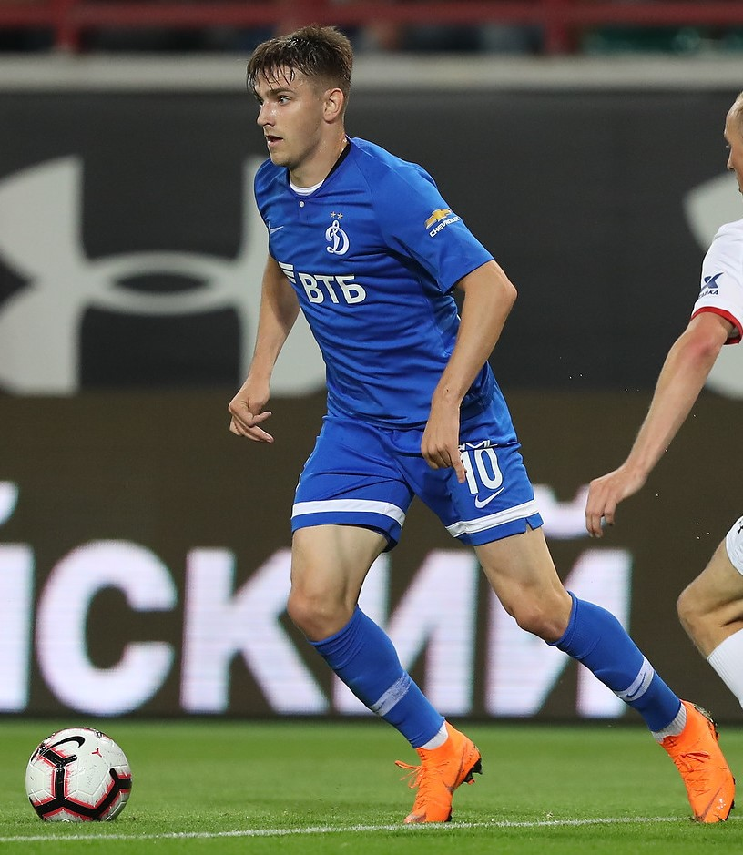 Fiodor Černych